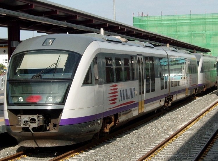 A Piraeus-Corinth train made of two Desiro DMU-2's in Piraeus railway station, Greece.